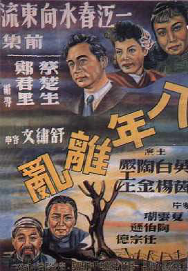 Movie poster for 1947 Chinese film The Spring River Flows East